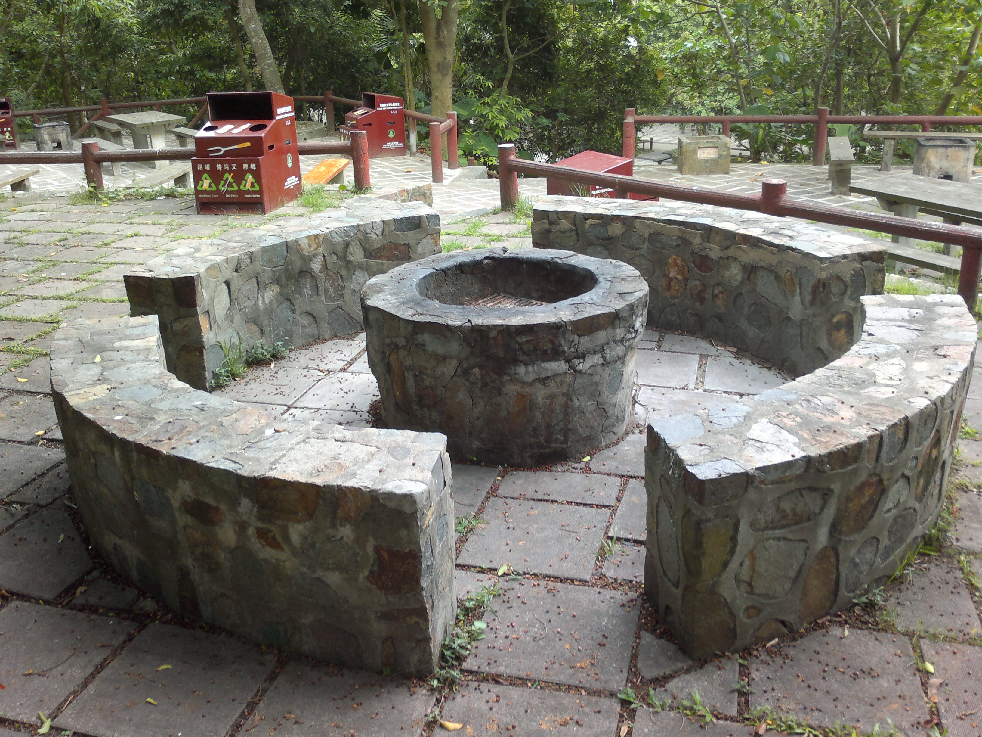 BBQ Facility in Aberdeen Country Park